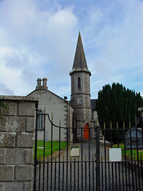 Church: Rathmolyon, Co. Meath, near to Rathmolyan, Meath, Ireland. The Google map says Rathmoylan. The OSi 1:200000 road map says Rathmoylon! The OSi 1:50000 map says Rathmolyon. The Irish form (R�th Moliain) shows that the latter form is correct.